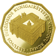 500 litas coin dedicated to the Palace of the Rulers of the Grand Duchy of Lithuania Gold Au 999.9 Quality proof Diameter of the circle circumscribed around the regular dodecagon coin 32.50 mm Weight 31.10 g Plain edge The designer of the coin is Giedrius Paulauskis Mintage 1,000 pcs Issued 2005 The coin was minted at the state enterprise Lithuanian Mint.